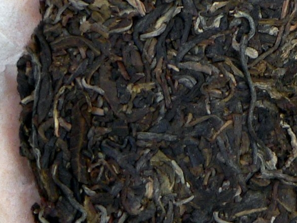 Detail of Pu-erh tea